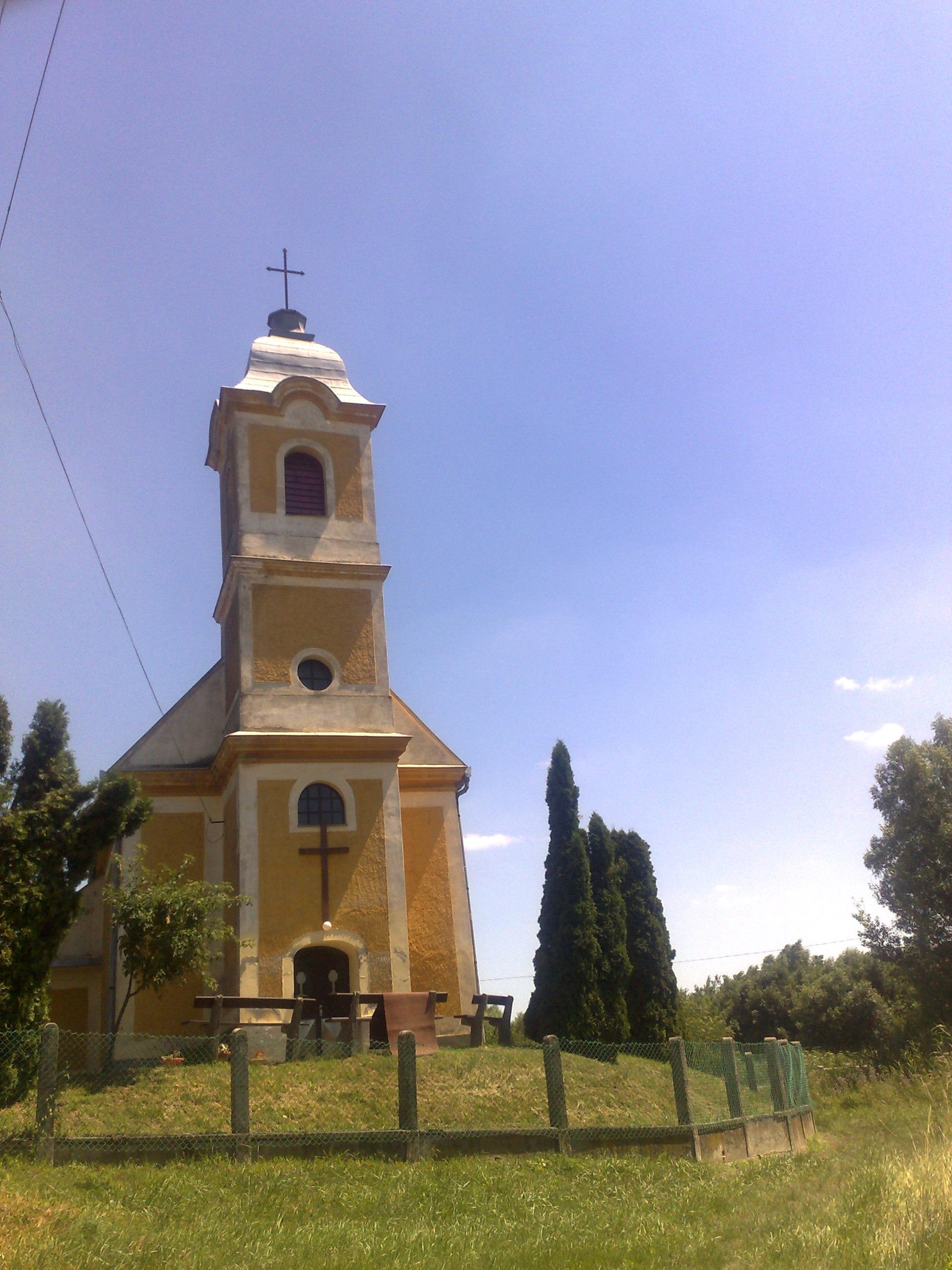 Catholic church in Rábaszentandrás, Hungary